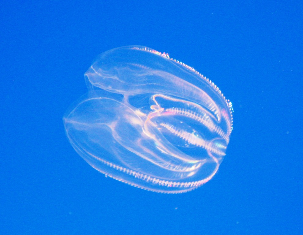 Mnemiopsis leidyi, Leidy's Comb Jelly, a common luminescent ctenophore. Length about 3 cm